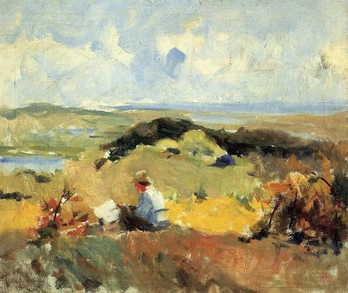 Artist in plein-air